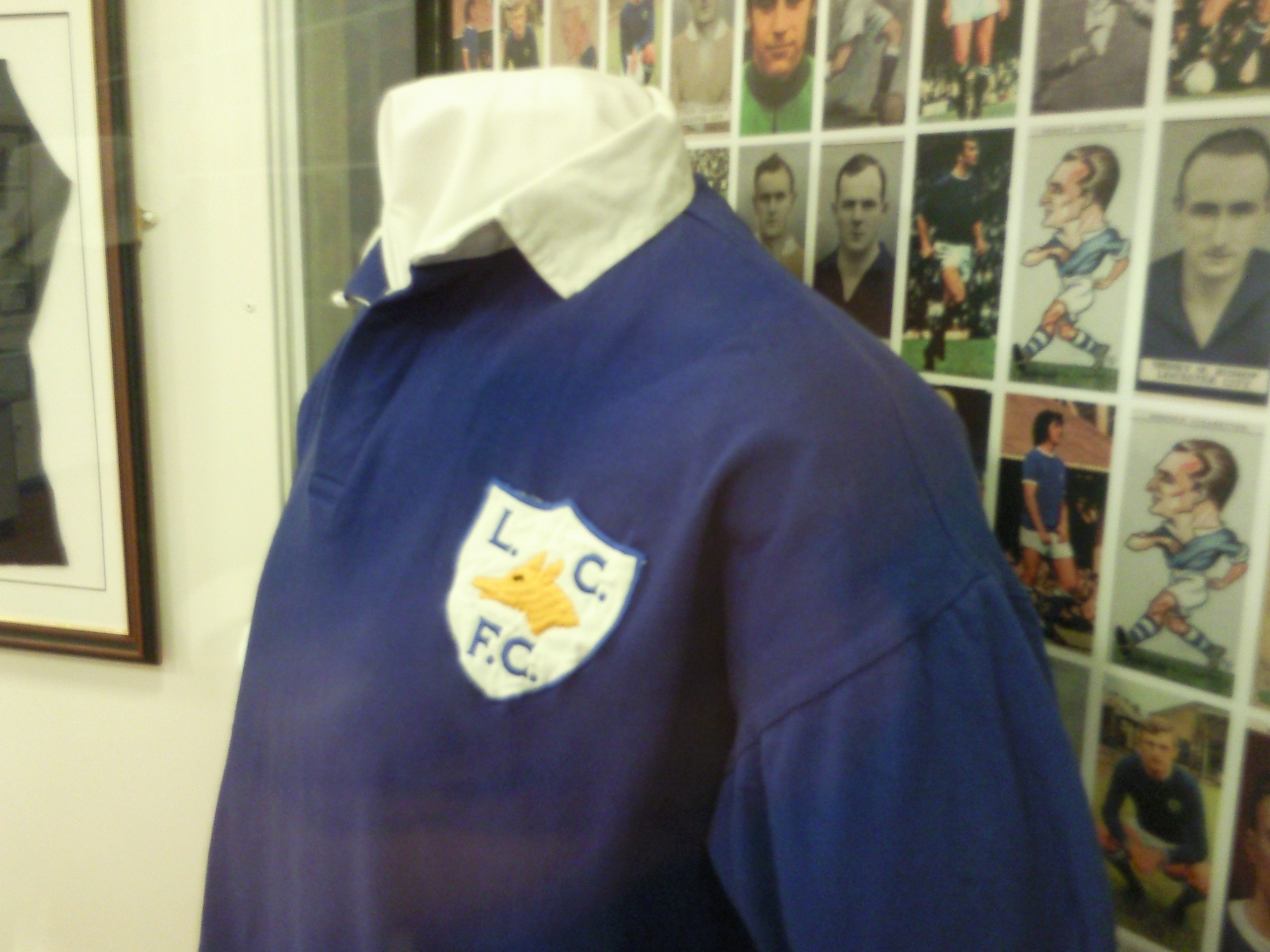 Leicester City F.C. shirt from 1948 on display in an exhibition in Coalville in January 2010. Photo taken by myself